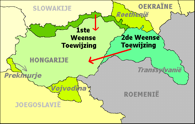 From file in English "ViennaAwards"